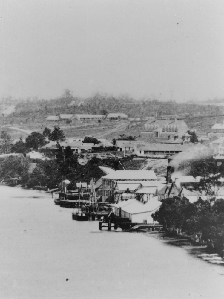 Buildings on the banks of the Brisbane River downstream from Gardens Point, ca. 1840